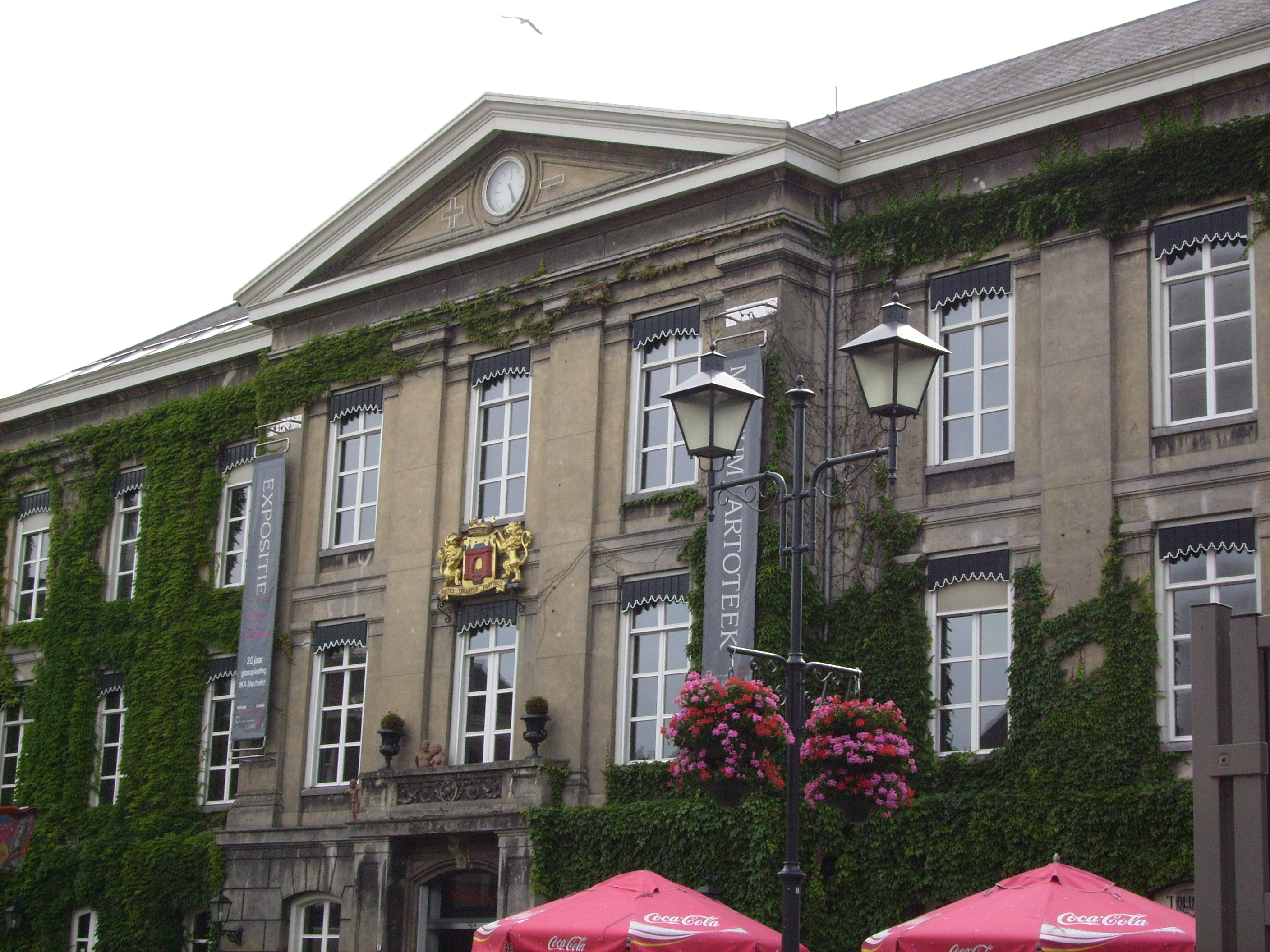 The old Gorinchem townhall